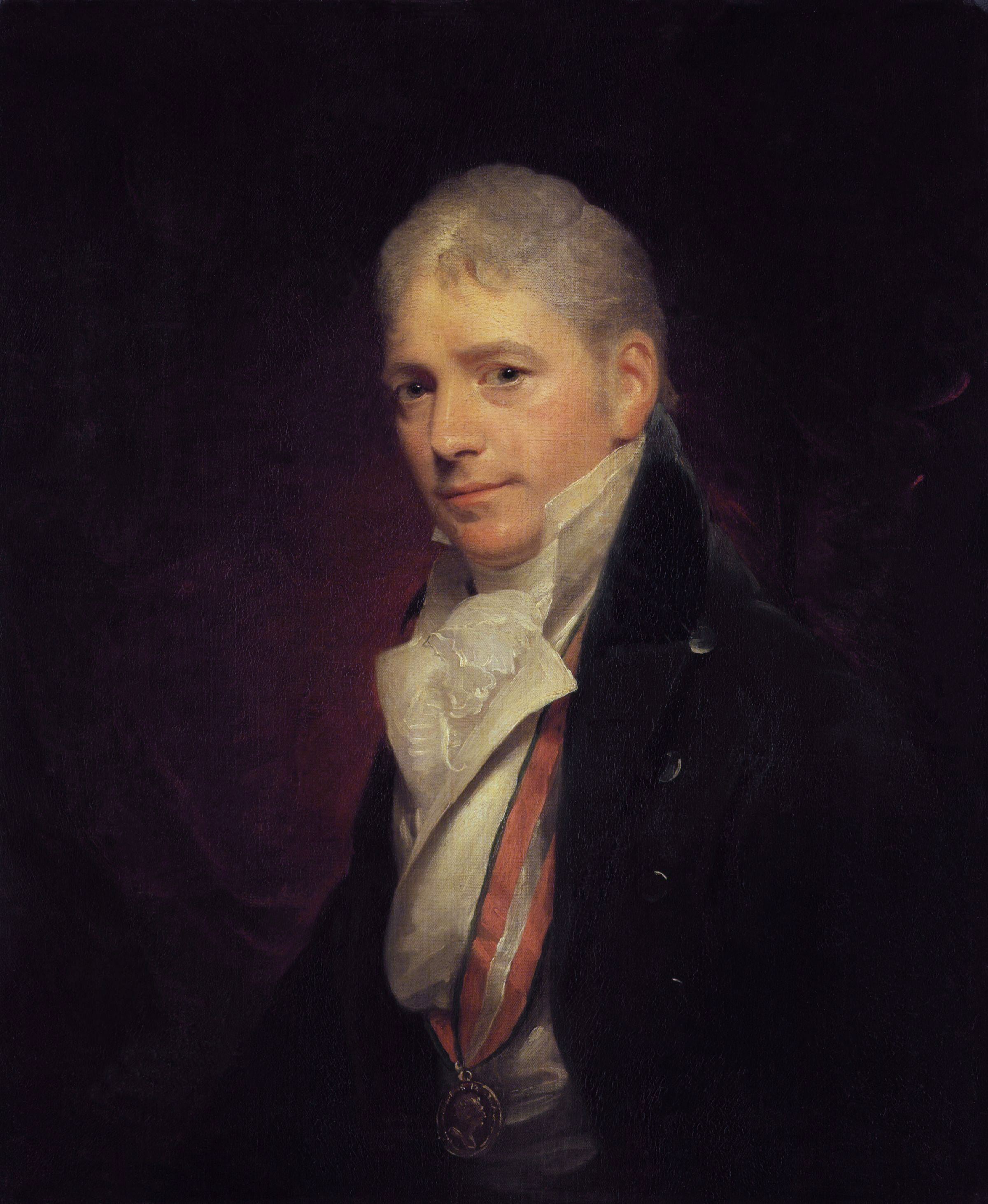 Sir Peter Francis Bourgeois, by Sir William Beechey (died 1839). All images in this batch have been confirmed as author died before 1939 according to the official death date listed by the NPG.